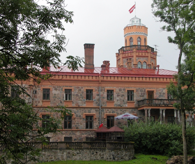 Sigulda, Latvia: House.